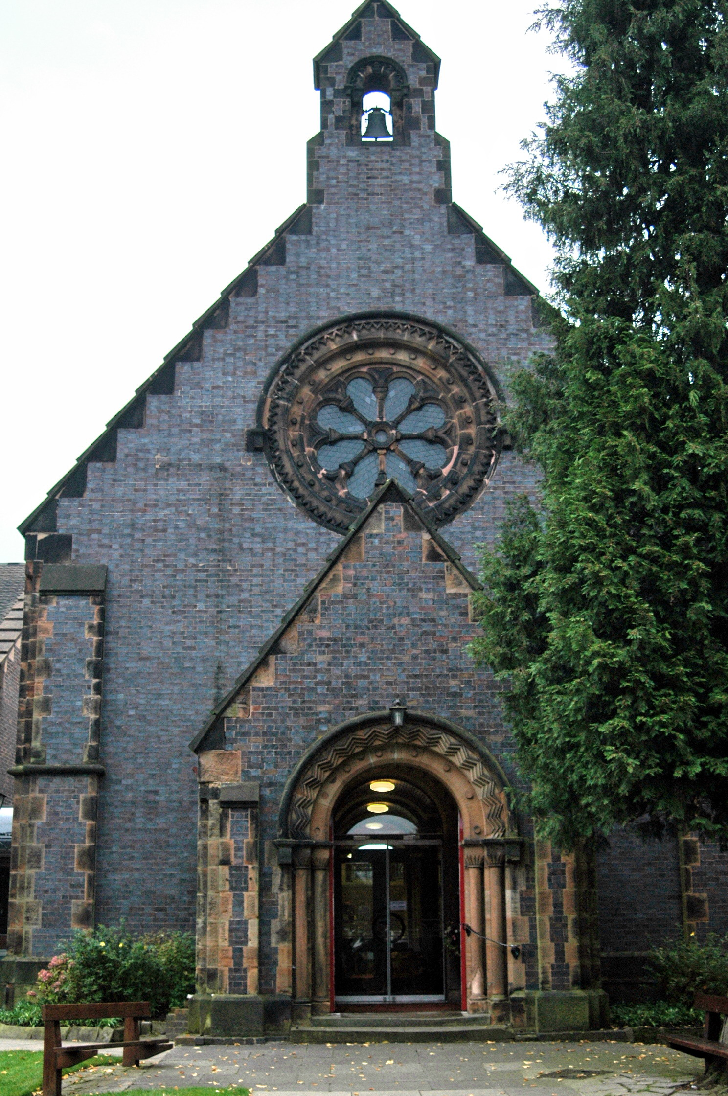 This is St John's Church in Walmley, Sutton Coldfield, Birmingham. It was built in the mid-1800s to a design by D.R. Hill.